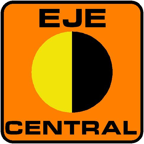 Signage for the highway known as the "EJE CENTRAL", based on the original by the then Department of the Federal District (DDF) in its Program for the signaling crossroads.